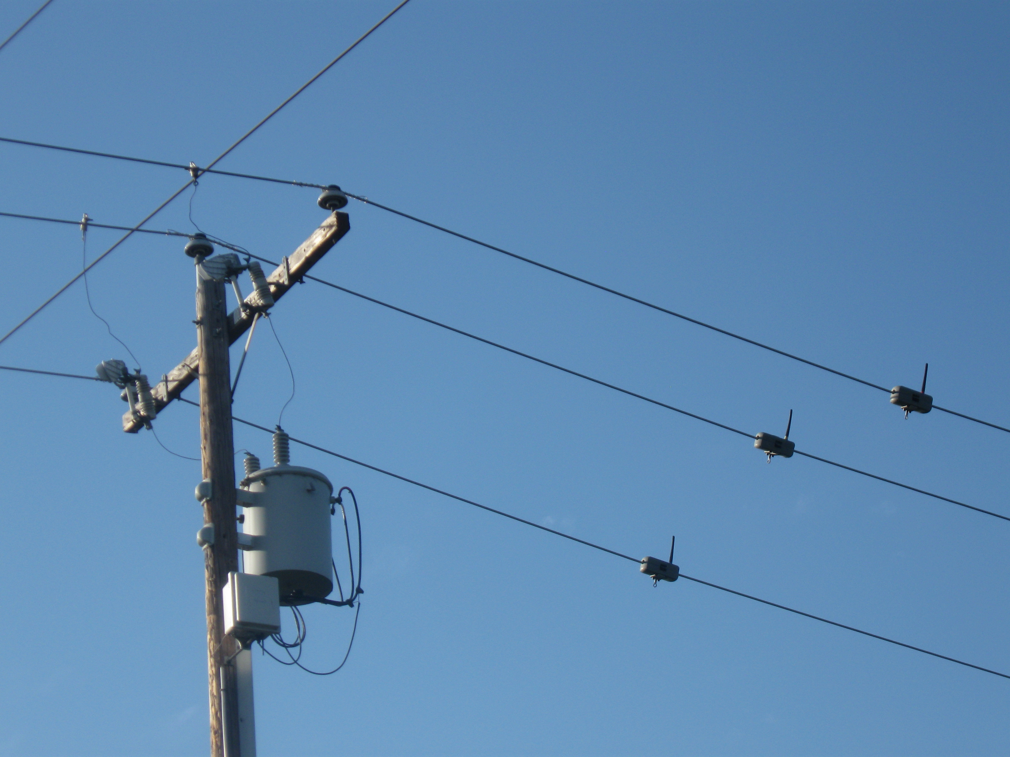 Three wireless overhead powerline sensors hanging from the phases of a 4160 Volt powerline and network node attached to a power pole; City of Palo Alto, California, USA